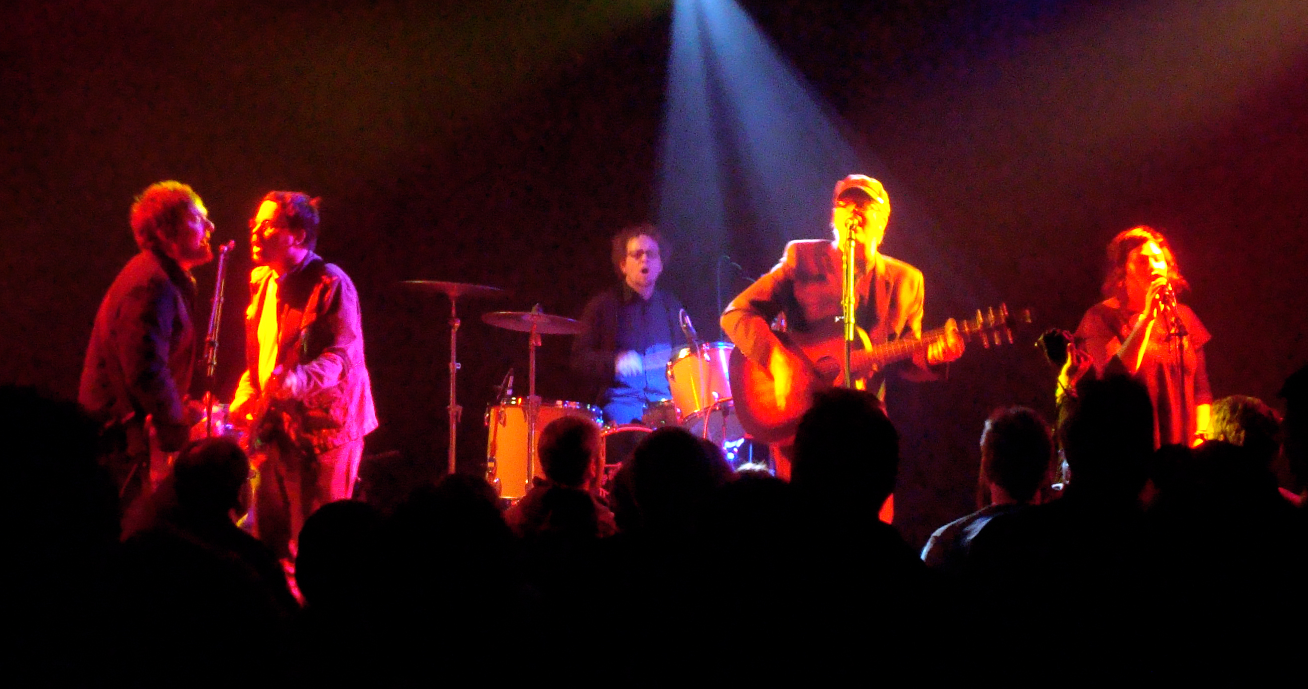 December 11, 2009 - Ciao, My Shining Star CD Release Party at Toad's Place, New Haven, CT